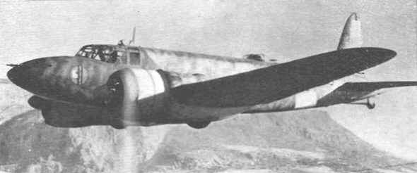 Fiat CR.25 Italian World War II aircraft